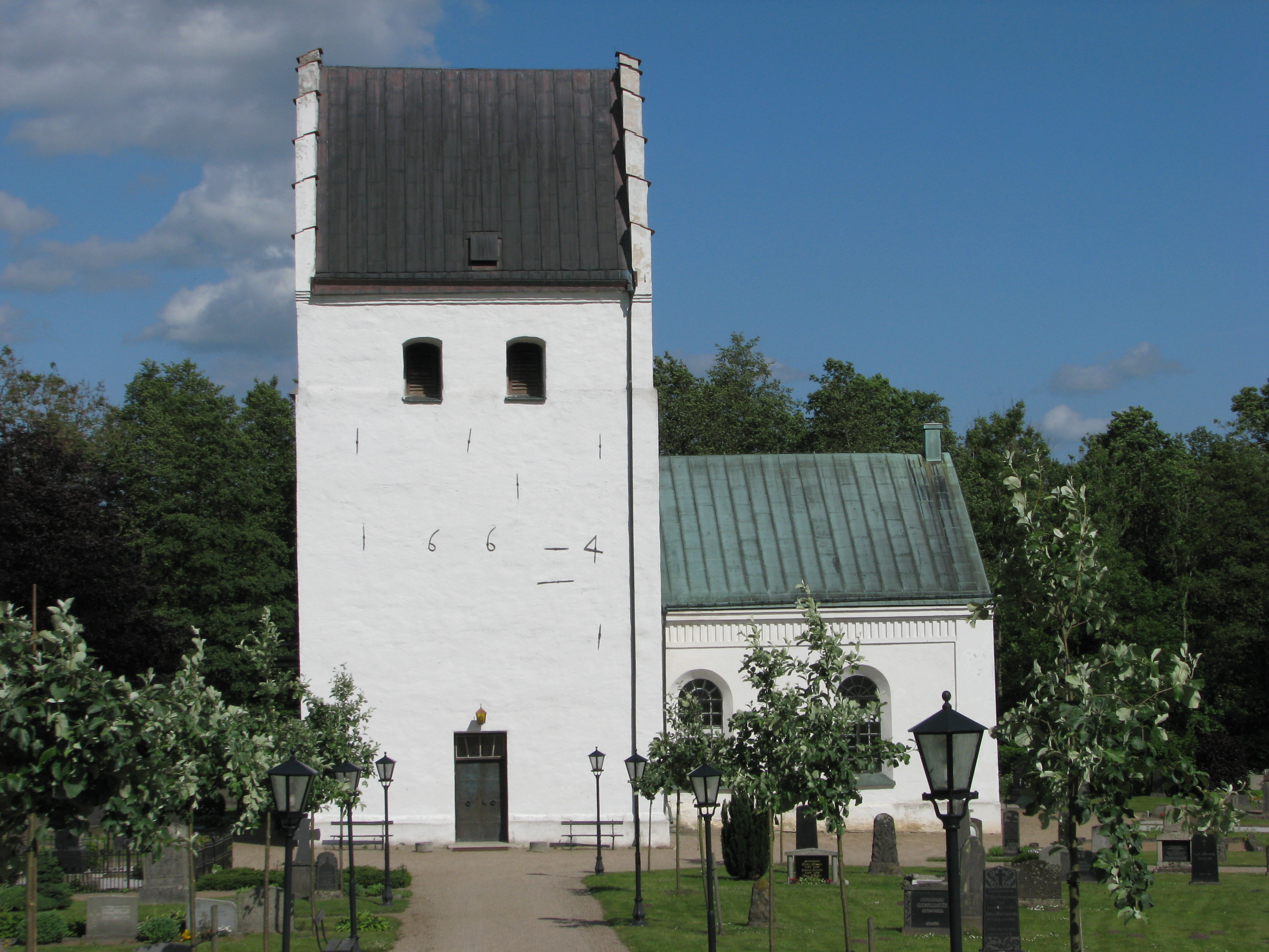 Finja church